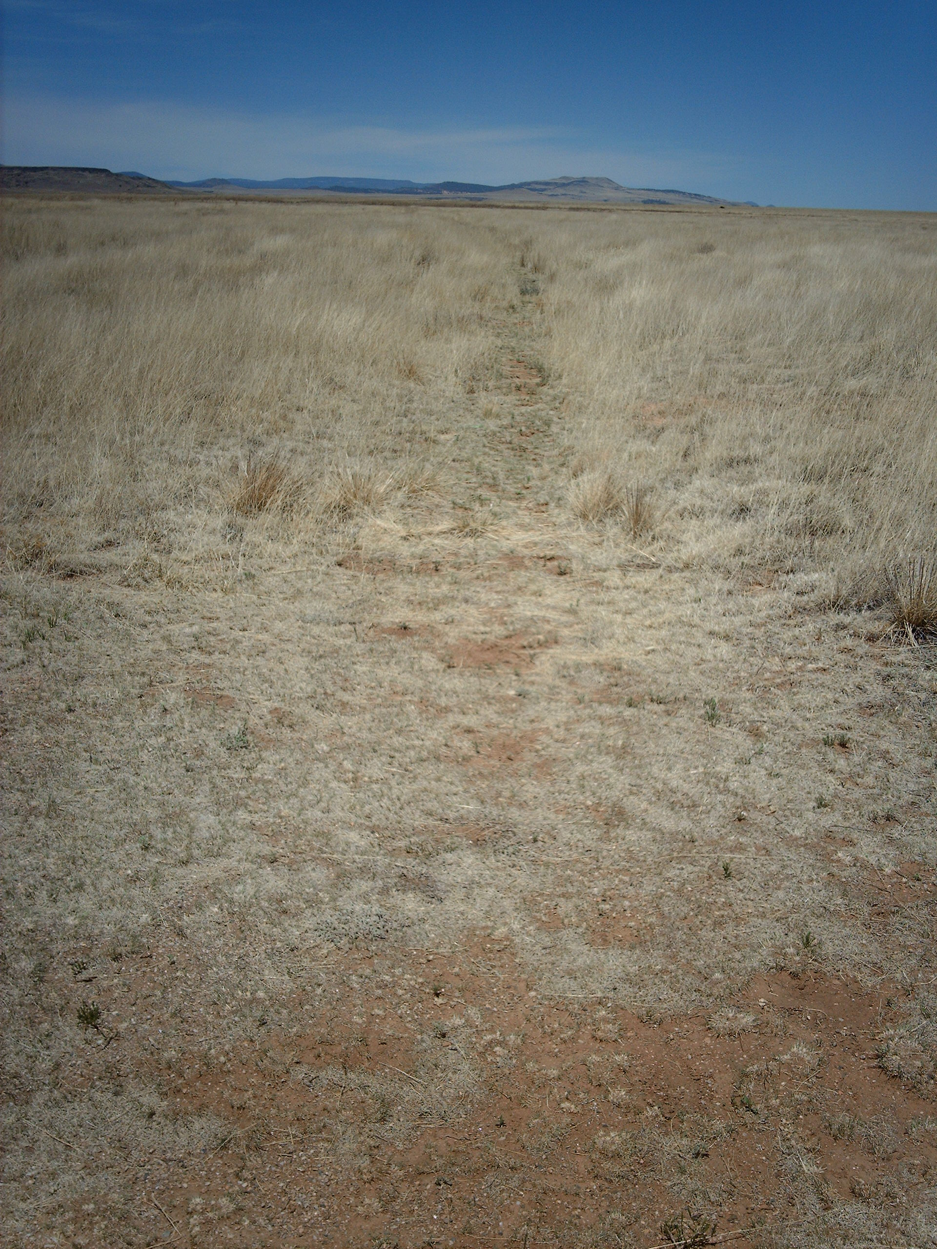 Wagon ruts from the historic Santa Fe Trail at Fort Union National Monument, New Mexico, USA